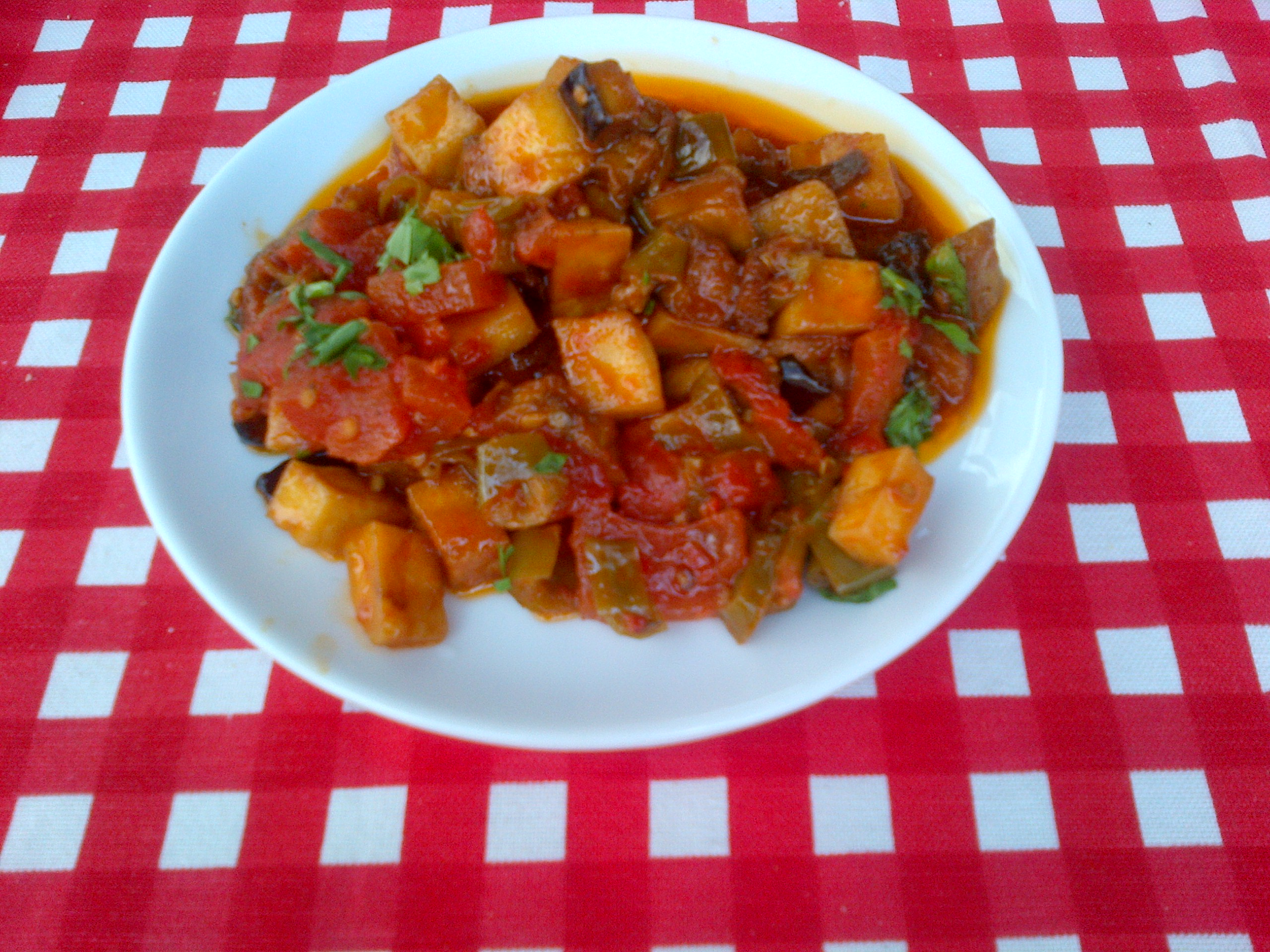 Cold dish "Şakşuka" from the Turkish cuisine, with eggplants, as the principal actor, and potatoes, green peppers "salça" (special tomato paste from Turkey), olive oil etc. It can be consumed as a "meze", an entrée (starter plate), or as a snack, or just for the sake of its delicious taste even if one is not hungry.